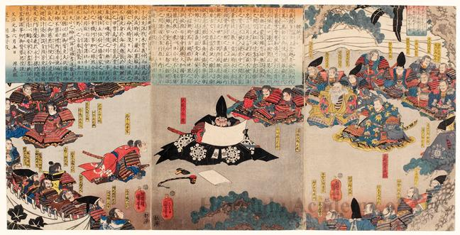 Object Title: Letter written by Yoshitsune at Koshigoe Date: c. 1843 - 1847 Artist: Utagawa Kuniyoshi Active: c. 1840s~1850s Publisher: Miyakozawa Medium: Color woodblock print Technique: Nishiki-e (Woodblock print with color blocks) Credit Line: Gift of Victor S.K. Houston in honor of his wife, Pinao Brickwood Houston, 1941 (11641.21) Object Number: 11641.21 Seals: Miyakozawa (c. 1840s~1850s) 都沢弘化～嘉永 Other Title: Kanji : 腰越状